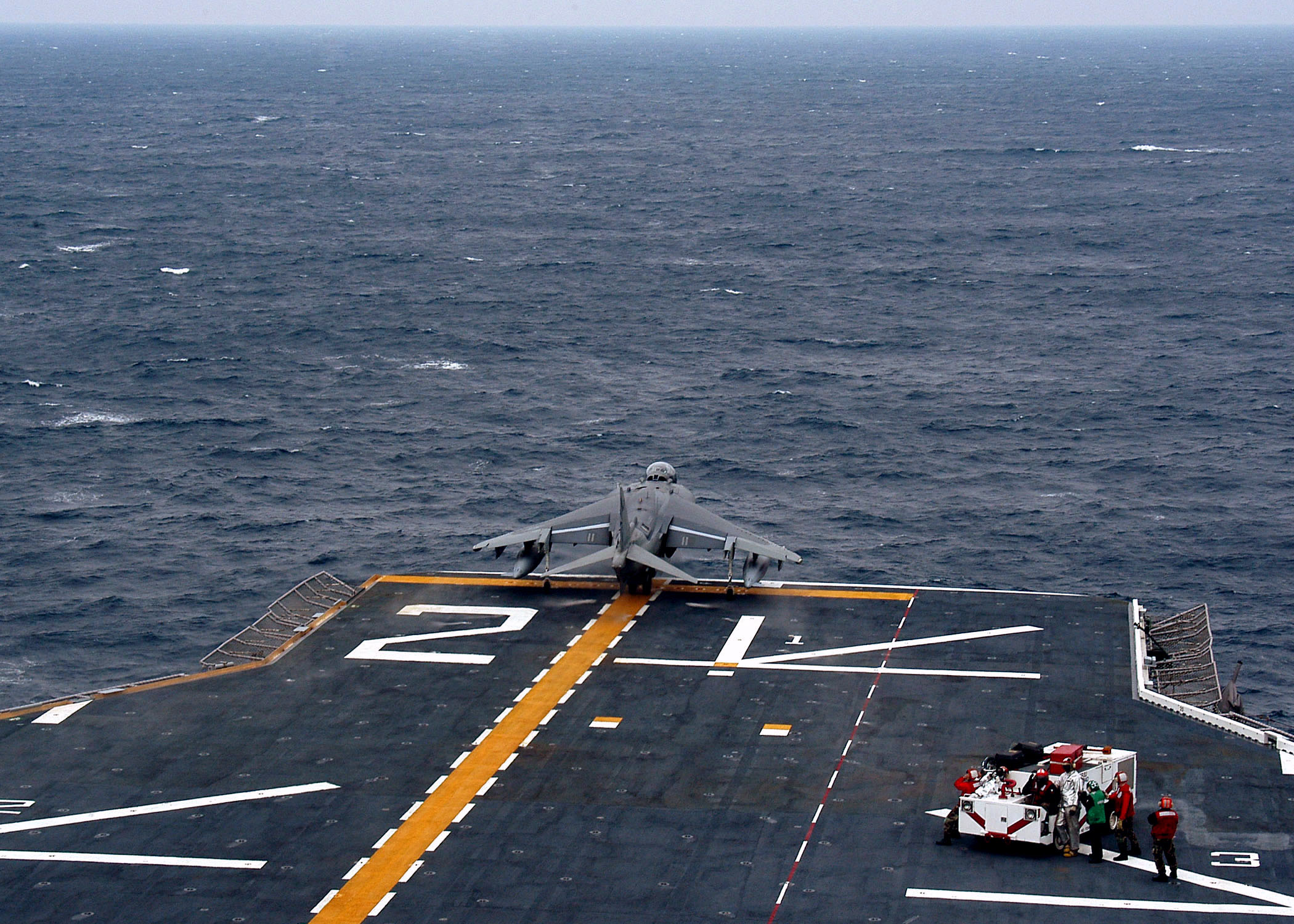 Virginia Coast (Mar. 17, 2004) - An AV-8B Harrier assigned to the “Bulldogs” of Marine Attack Squadron Two Two Three (VMA-223) launches off the bow of the amphibious assault ship USS Saipan (LHA-2) during flight deck certifications. Saipan is currently underway in preparation for the ship's upcoming scheduled deployment. U.S. Navy photo by Photographer's Mate 1st Class Courtney Torgrude. (RELEASED)